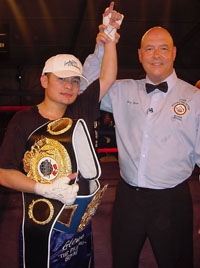 Glenn Donaire image